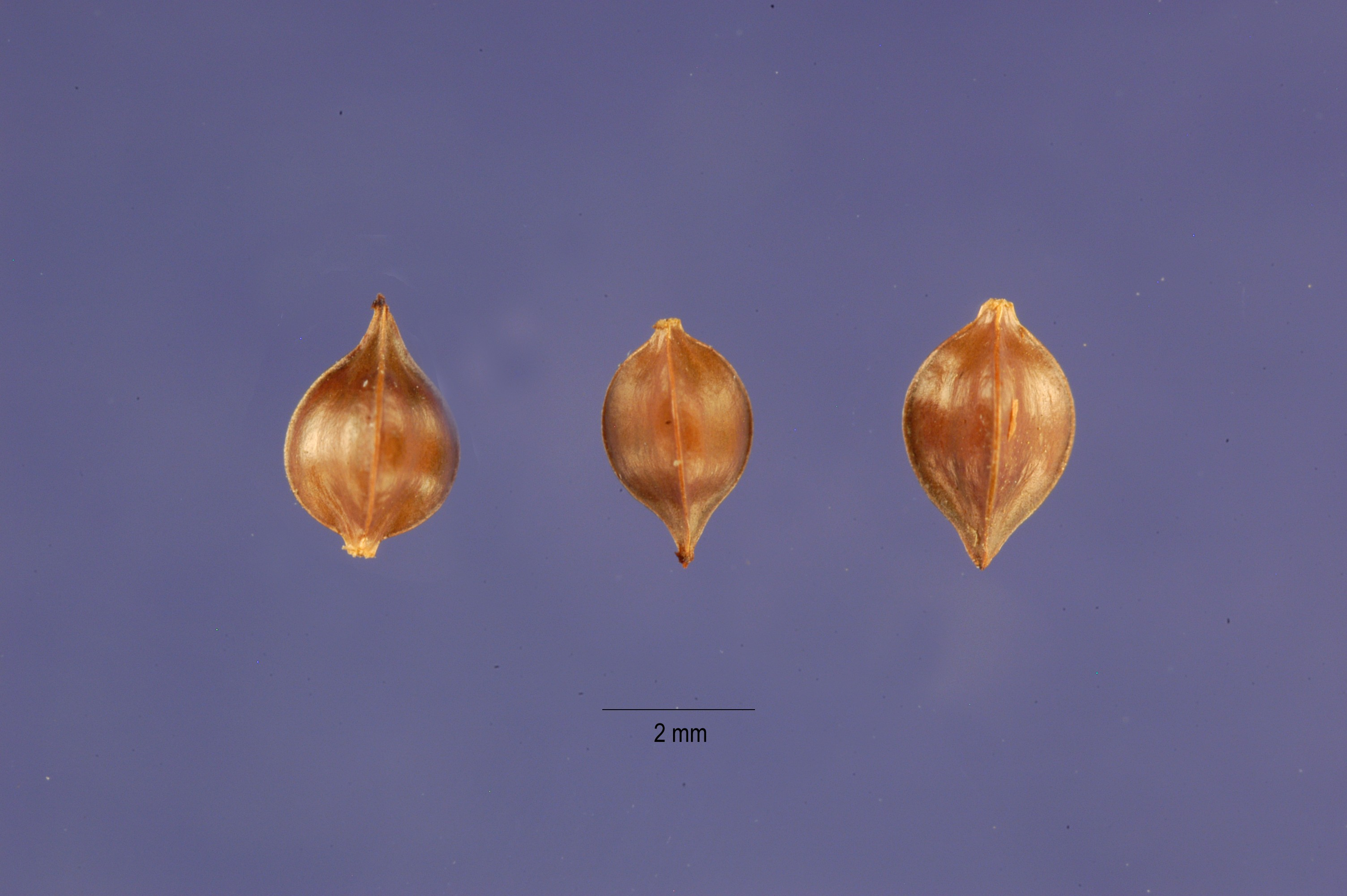 Rumex_patientia seeds